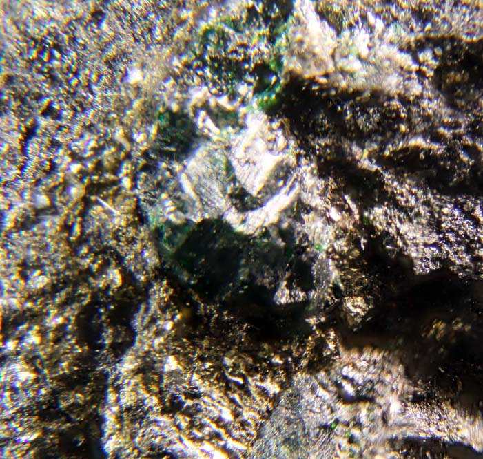 Outstanding sharp green crystal of the vanadium garnet mineral goldmanite on matrix. From: Rybnícek, Pezinok, Bratislava Region, Slovakia (Slovak Republic).